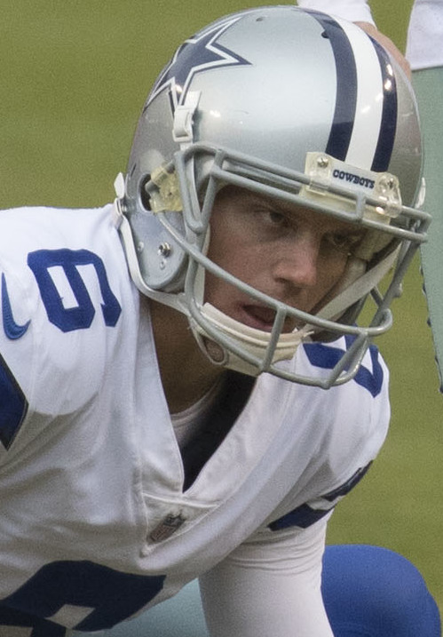 Cowboys at Redskins 10/29/17